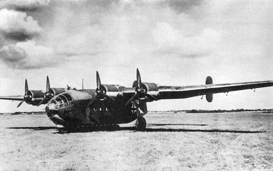 Photograph of the 7th German Arado Ar 232B-0 (A3+RB) of 3./KG 200 (3rd Sqn, 200th Bomb Wing, it was a Special Operations Wing). This aircraft was surrendered to British forces at Eggebek, Schleswig-Holstein, Germany, in 1945. It was then flown to the Royal Aircraft Establishment, Farnborough (UK), for testing and was later scrapped.